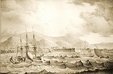 View of Sukhumi fortress